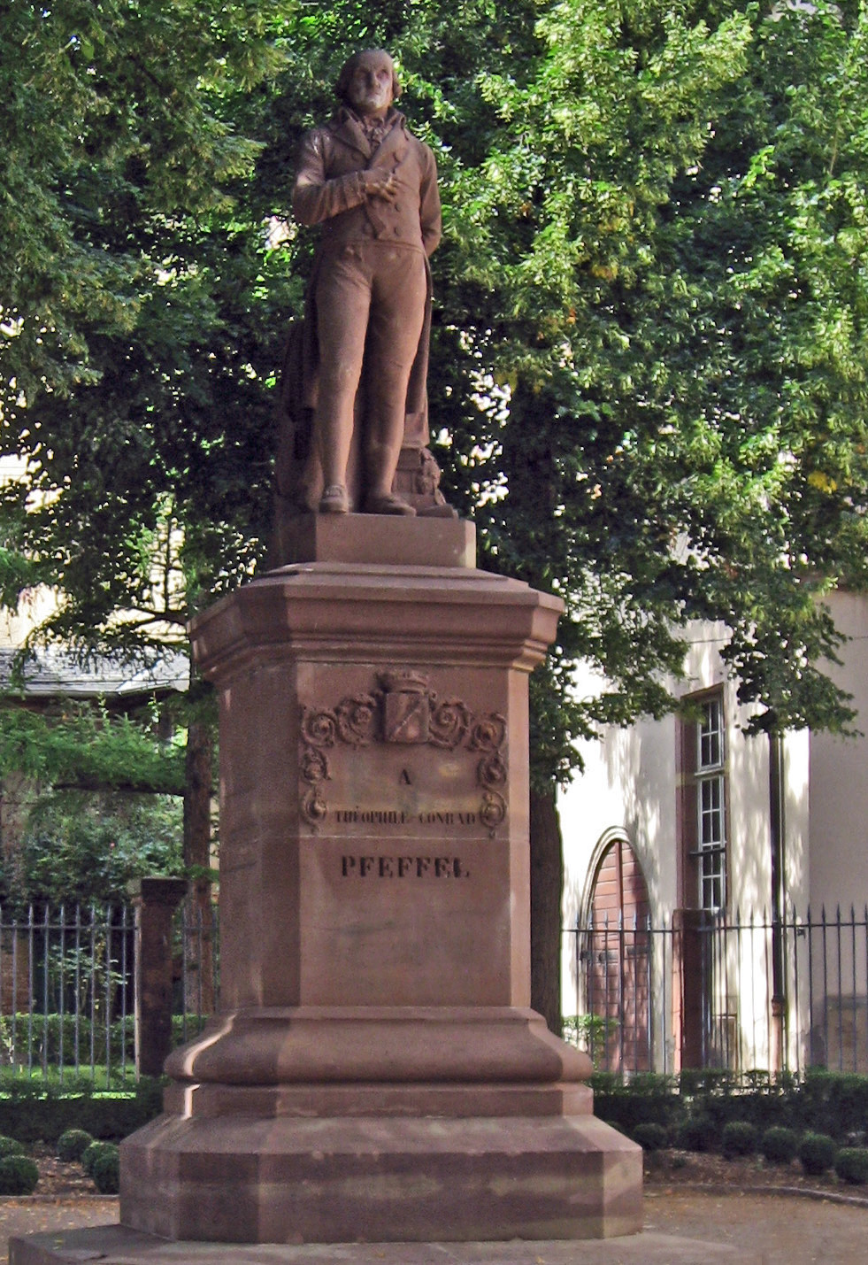 Monsieur Gottlieb Konrad Pfeffel (1736-1809) was a teacher (on the cutting edge of pedagogy of the time) and a poet. He was born in Colmar and operated a school in Colmar as well.